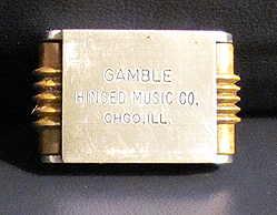 Roller type rastrum capable of drawing two staff sizes: .36" and .31"